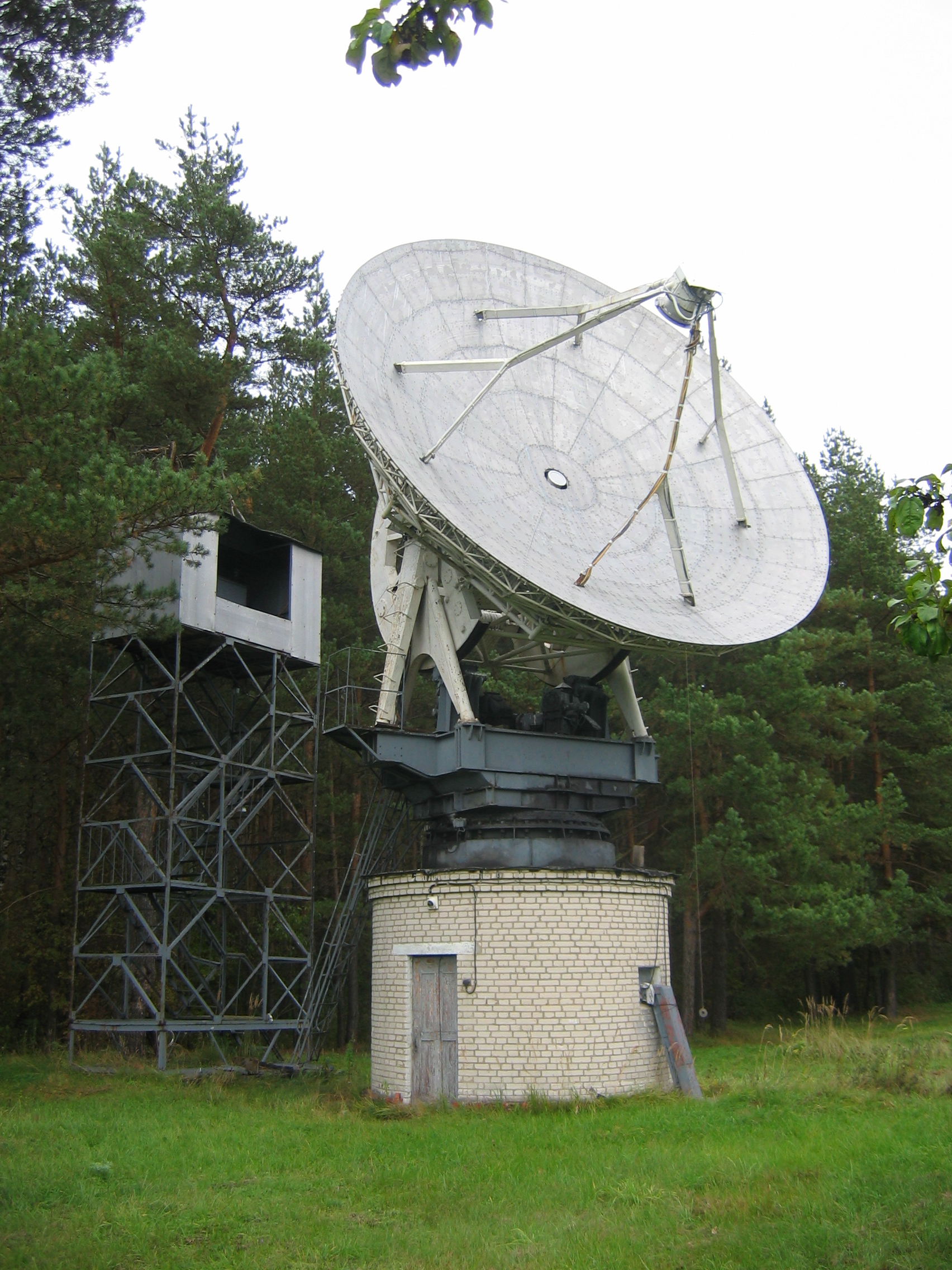 The east antenna of Bauman's radiotelescope.